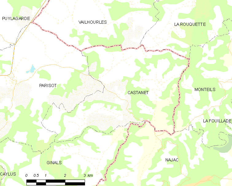 Map of French municipality Castanet